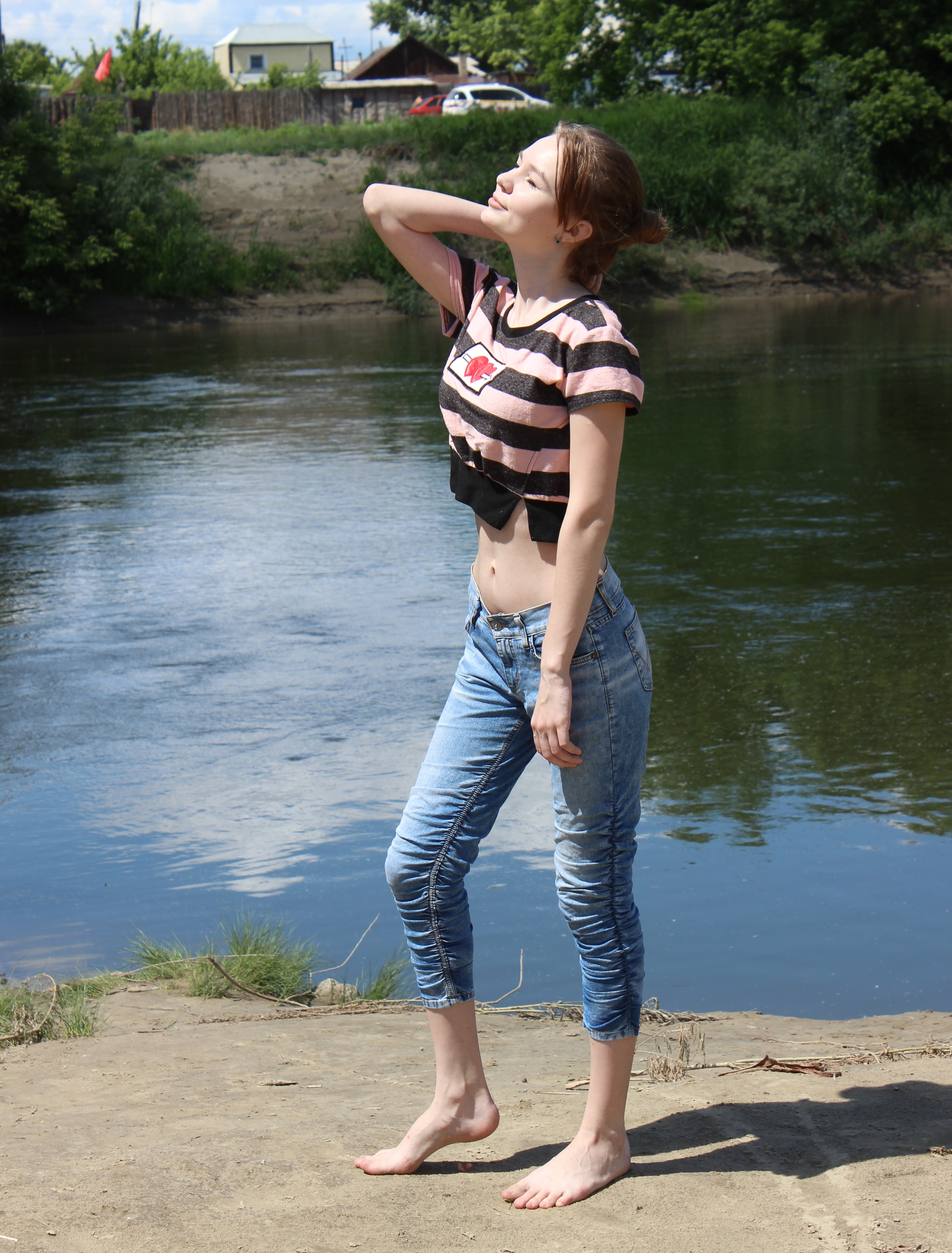 Girl Anna Chuchalina, Rubtsovsk, June 2019. Hardening barefoot on the banks of the river Aley.